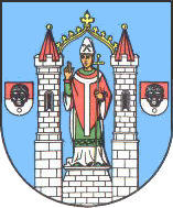 former Coat of Arms of Aken (Elbe)